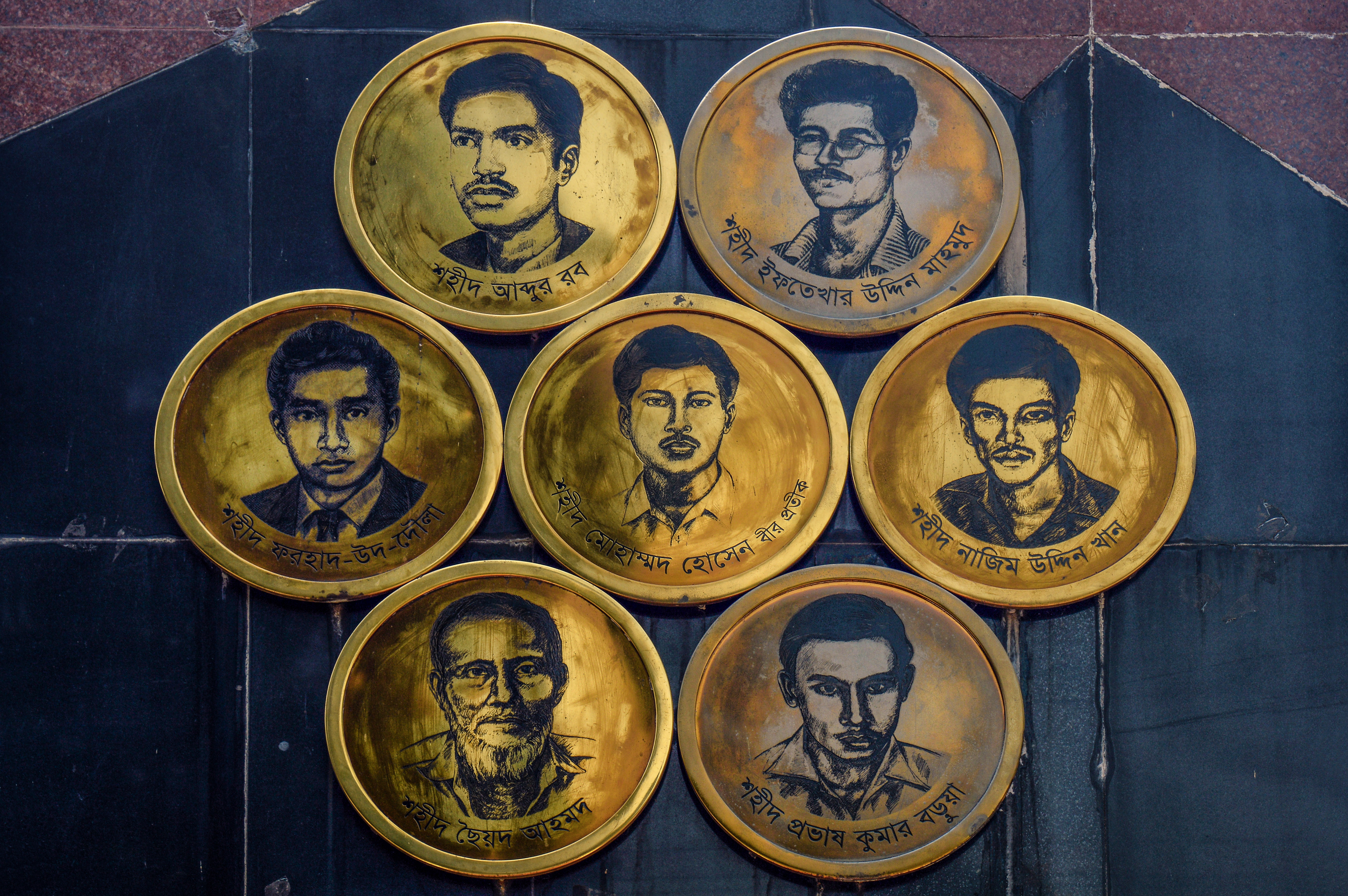 Badges of seven freedom fighters on Swaran, Monument. The seven freedom fighters are: Bir Protik Mohammad Hossain, Chain-man of Engineering Department; Abdur Rob, CUCSU GS; Iftekhar Uddin Mahmud, student; Farhad-Ud-Daulah, student; Nazim Uddin Khan, student; Prabhasa Kumar Barua, Sub-Assistant Engineer; and Syed Ahmad, Guard.